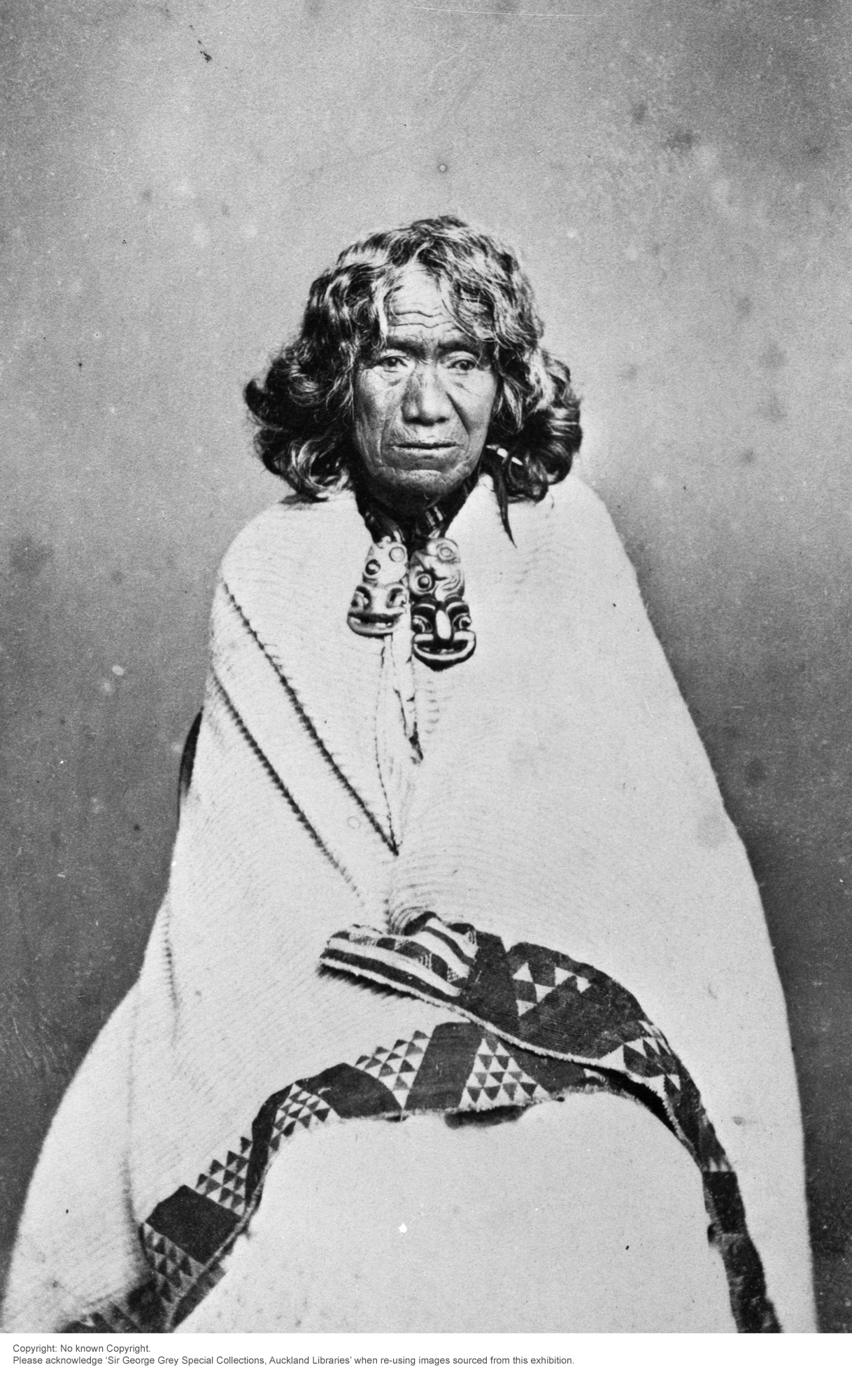 Te Pikinga. Ngāti Apa. [1819-1834]